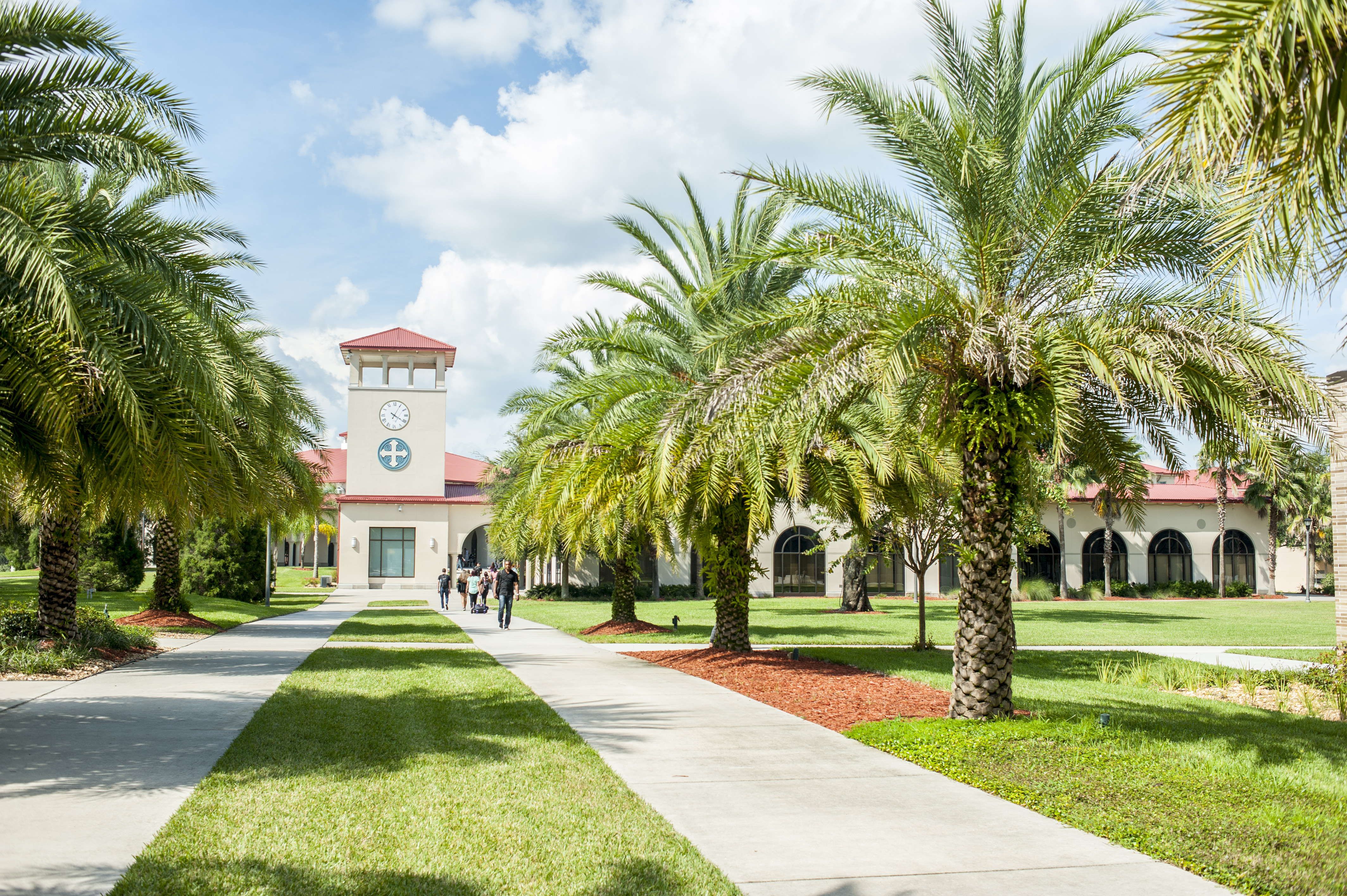 Saint Leo University main entrance at the home campus